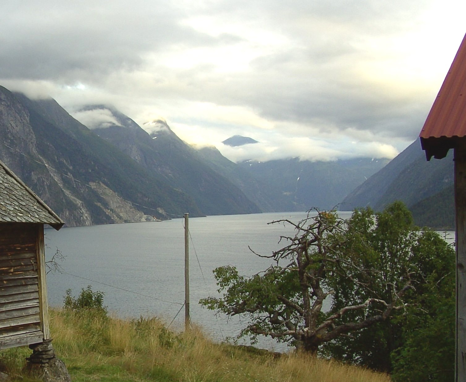 View into the Northern opening of Sunnylvsfjorden from a farm house near Liabygda (cropped version of original image om Wikimedia) Location: Liabygda, Stranda municipality, Norway